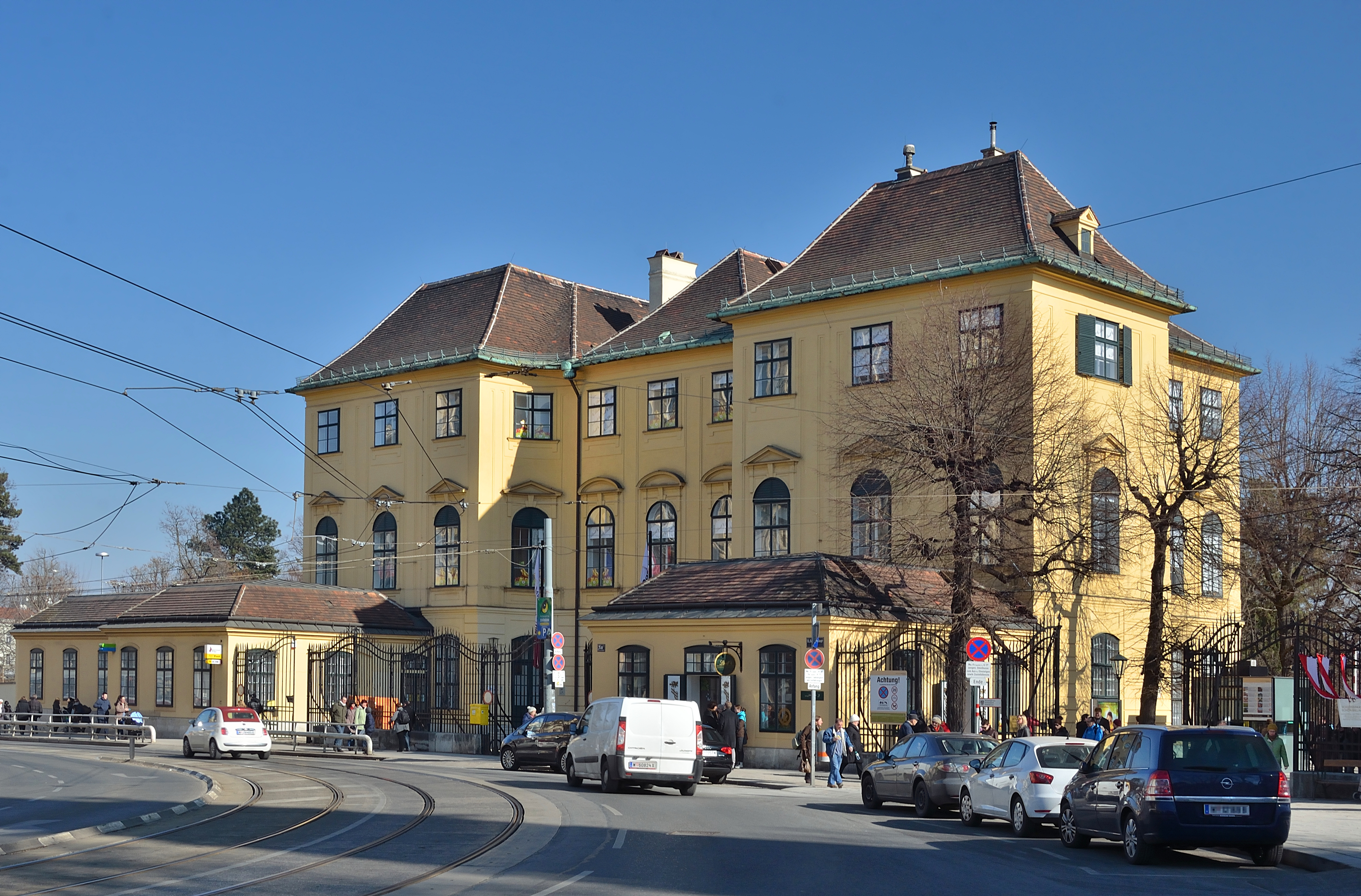 The so-called Kaiserstöckl at Hietzing, Vienna, is part of the palace of Schönbrunn ensemble and thus is protected also as a cultural heritage monument. Inside there is a post office.